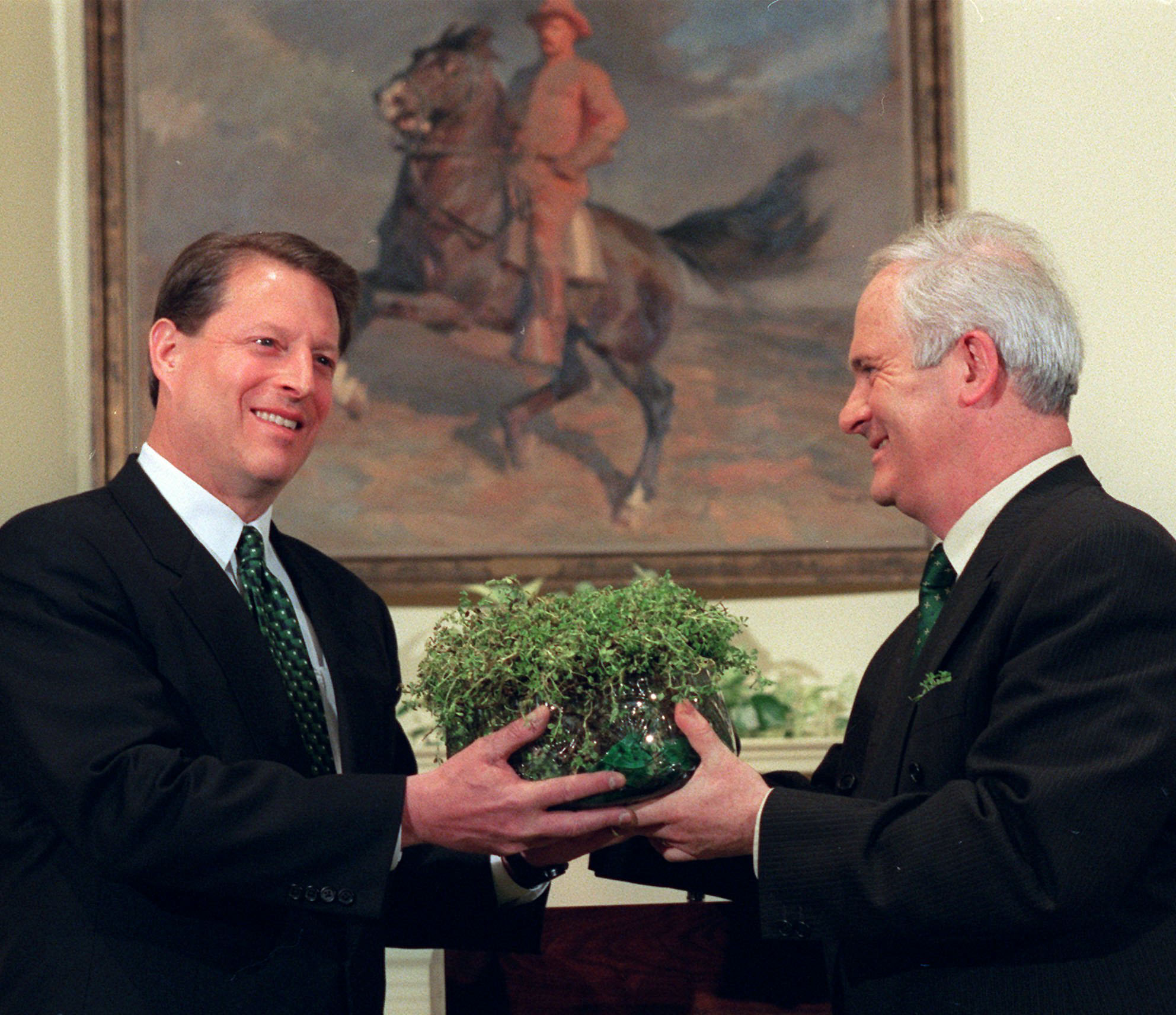 Under a portrait of Teddy Roosevelt, Taoiseach John Bruton presents United States Vice President Al Gore with a crystal bowl of shamrock at the White House on Monday, 17 March 1997. The vice president accepted the traditional Saint Patrick's Day gift on behalf of President Clinton, who was recovering from knee surgery.